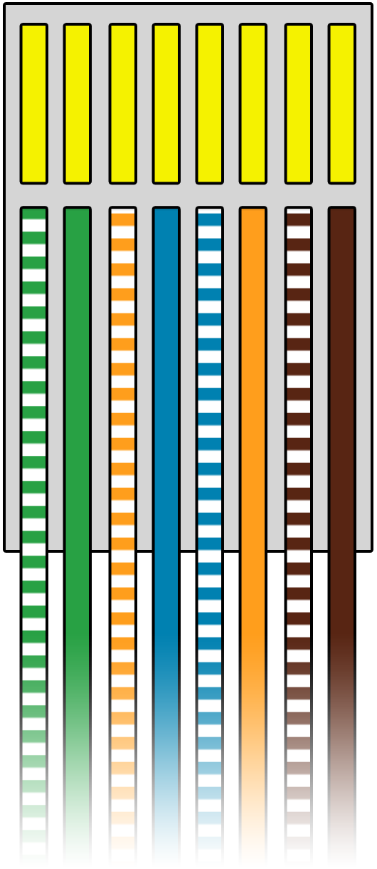 Crossover cable